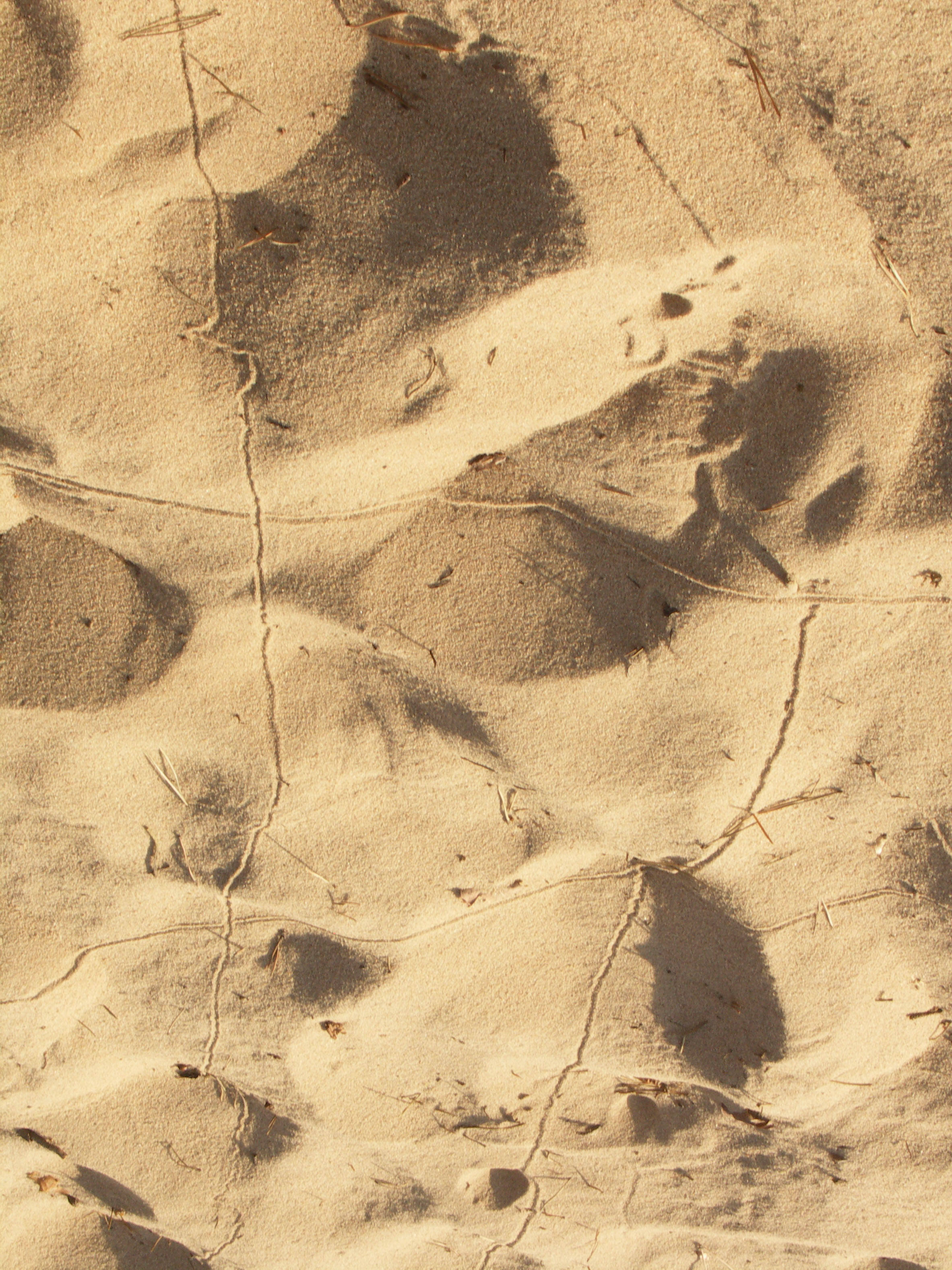 "Doodles" made by antlion larvae when moving to a new place to build a new sand pit trap.